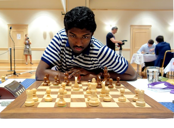 Baskaran Adhiban playing at the 2013 Chess World Cup